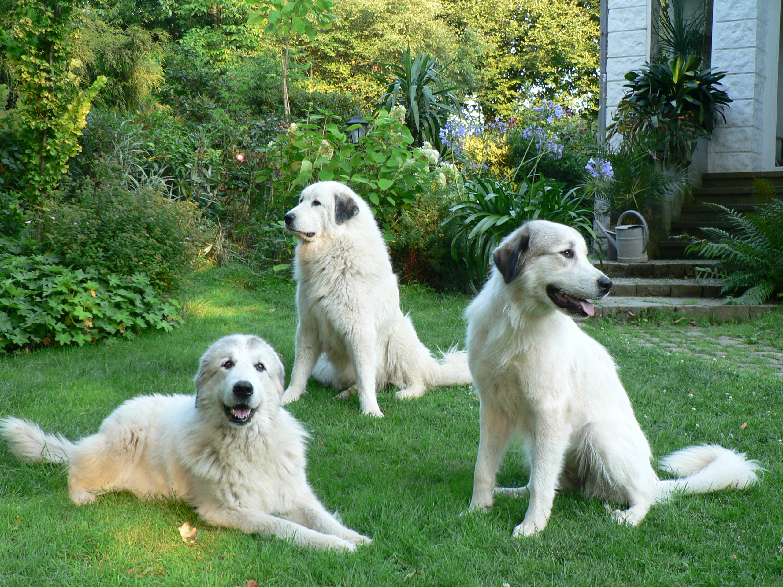 Three dog-generations of Great Pyrenees. Grandma, mother and child. left: Ninusch von Hüttenbusch middle: Kajal von Nutscheid right: Margaux von Nutscheid